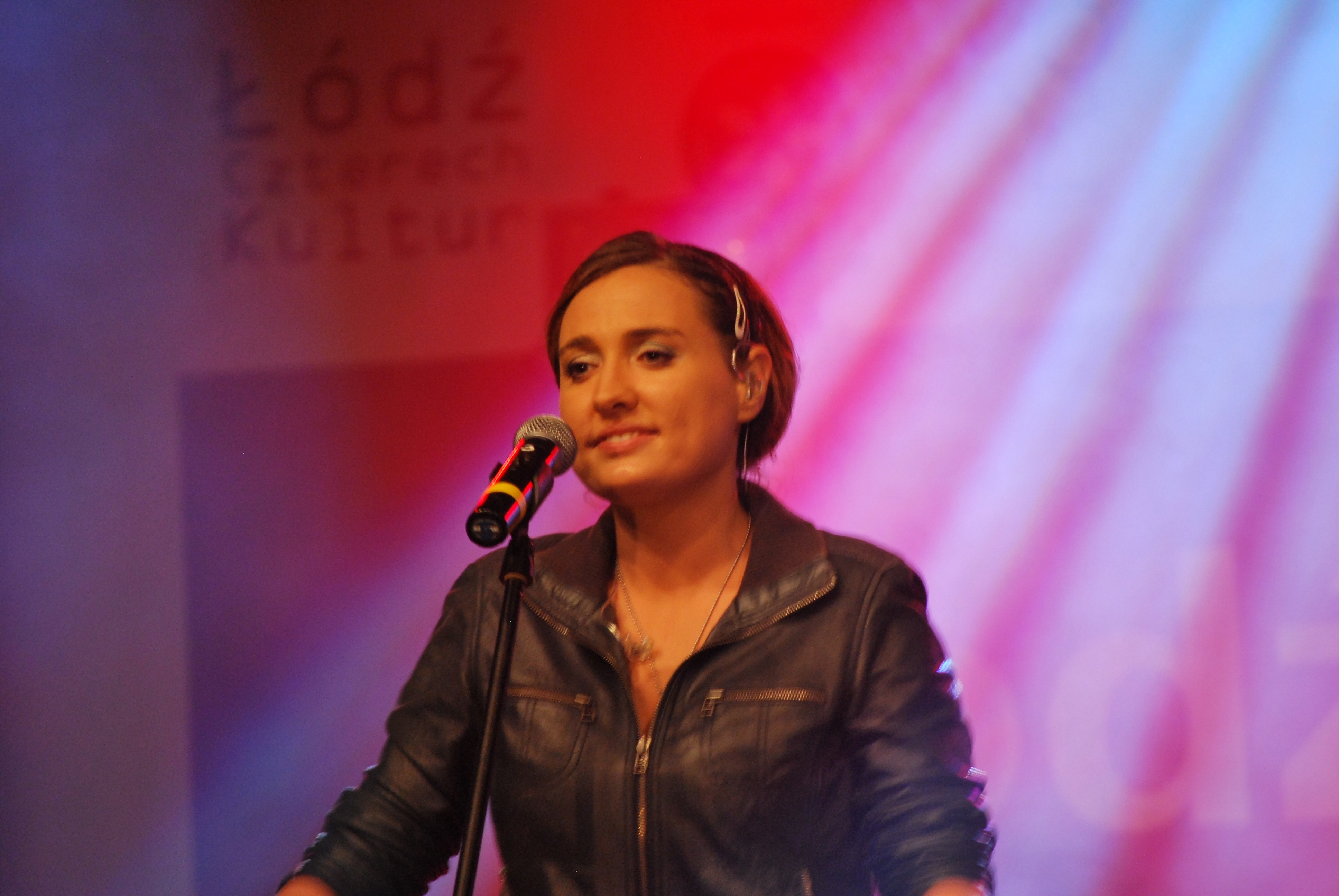 Mika Urbaniak, Łódź of Four Cultures Festival